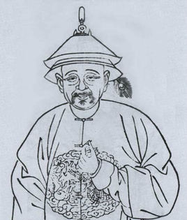 Li Shuaitai, early Qing dynasty military commander and Viceroy of Liangguang.